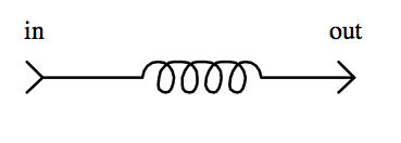 own work